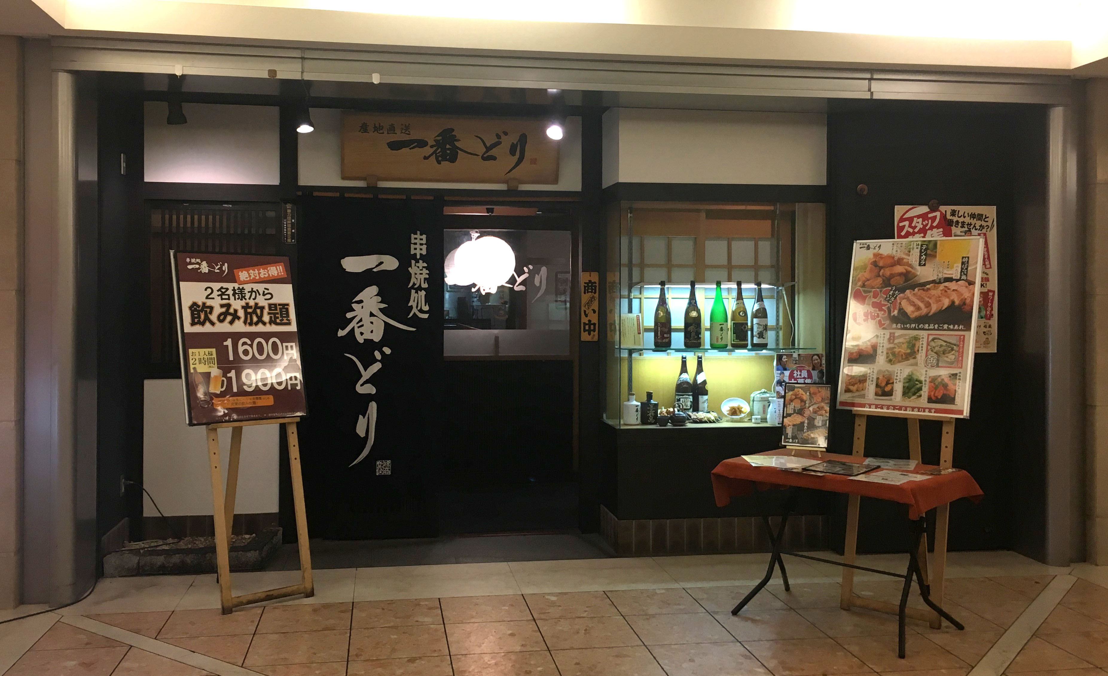 Ichibandori (Japanese bar chain) Shinjuku Park Tower branch (Tokyo, Japan)